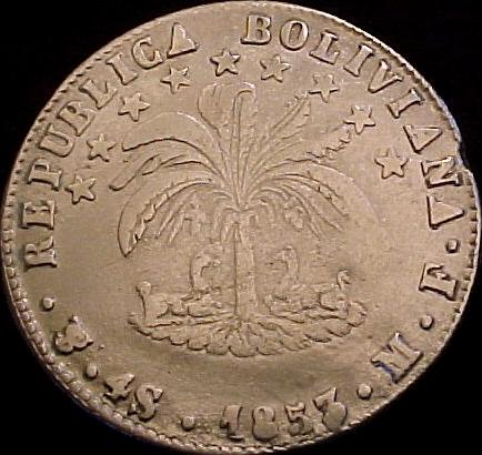 Bolivian 8 sol coin from 1853 - reverse